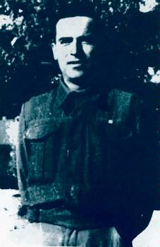 Greek officer and communist Stefanos Papayannis.